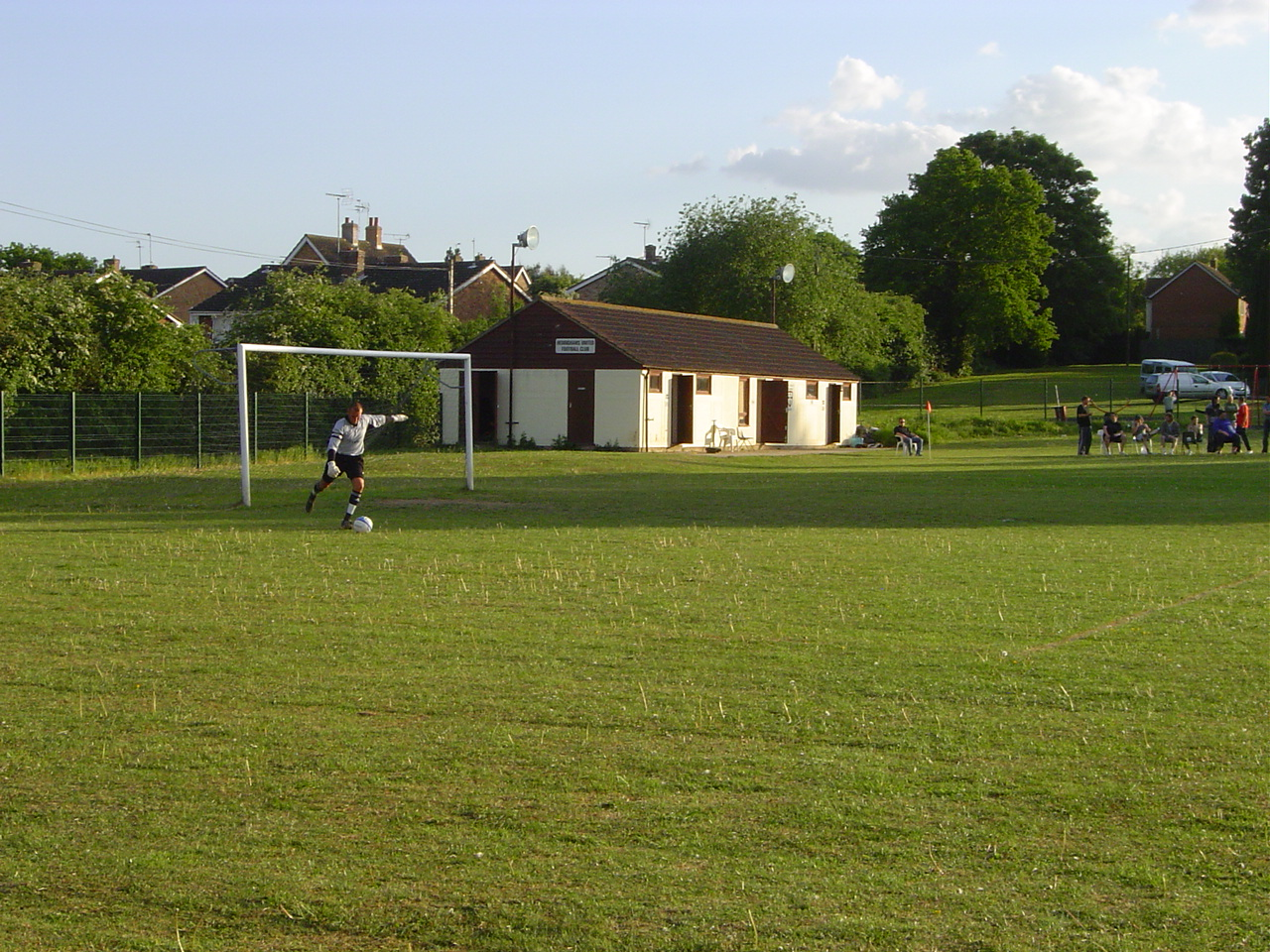 Hedinghams Utd Football Ground- Sible Hedingham